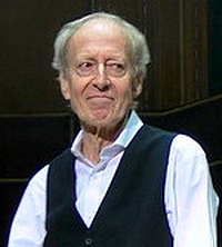 John Barry at the Royal Albert Hall (2006).